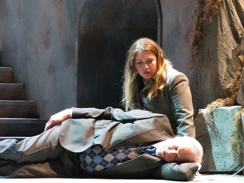 Eurydice